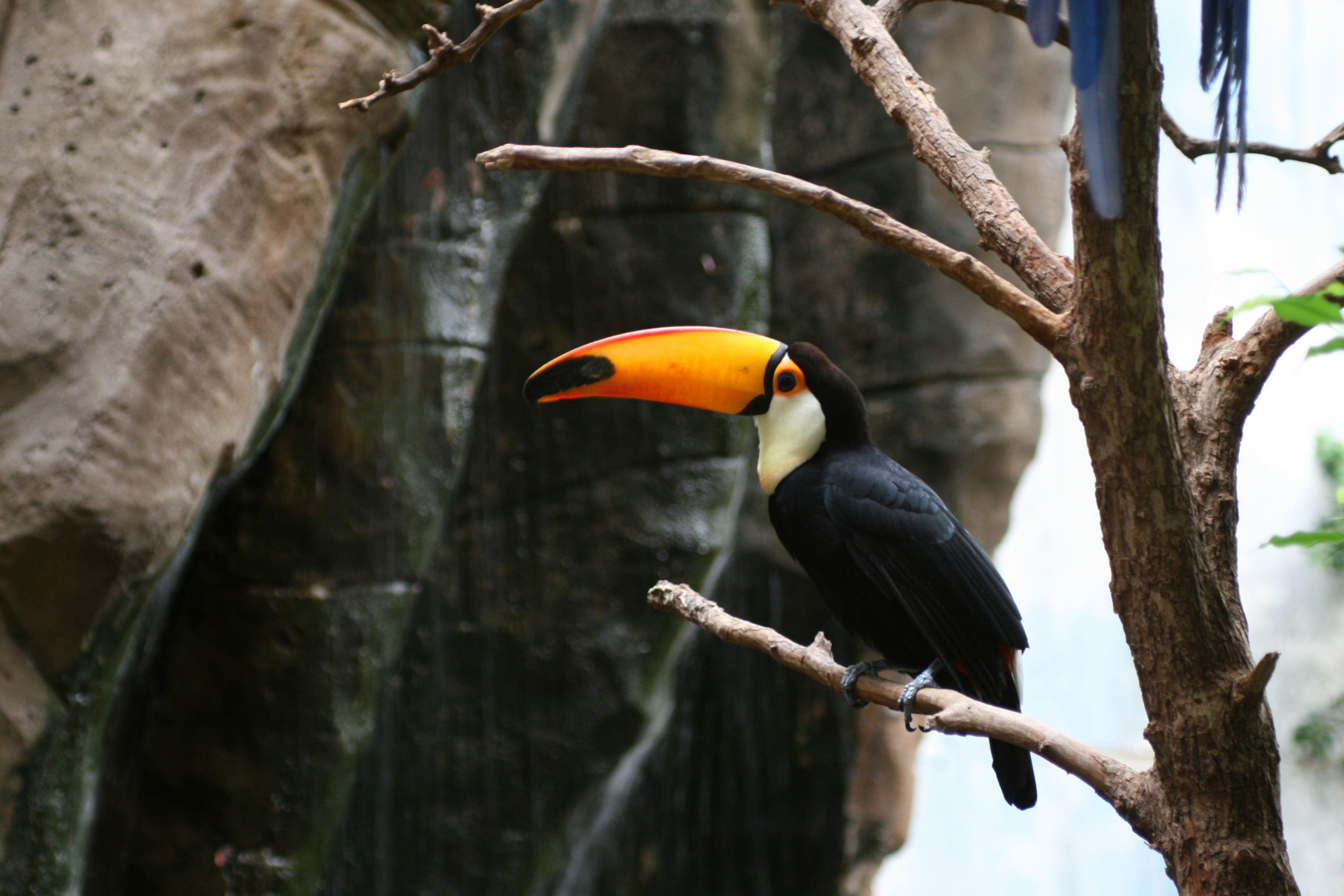 Tucán. Faunia Park, Madrid, Spain.